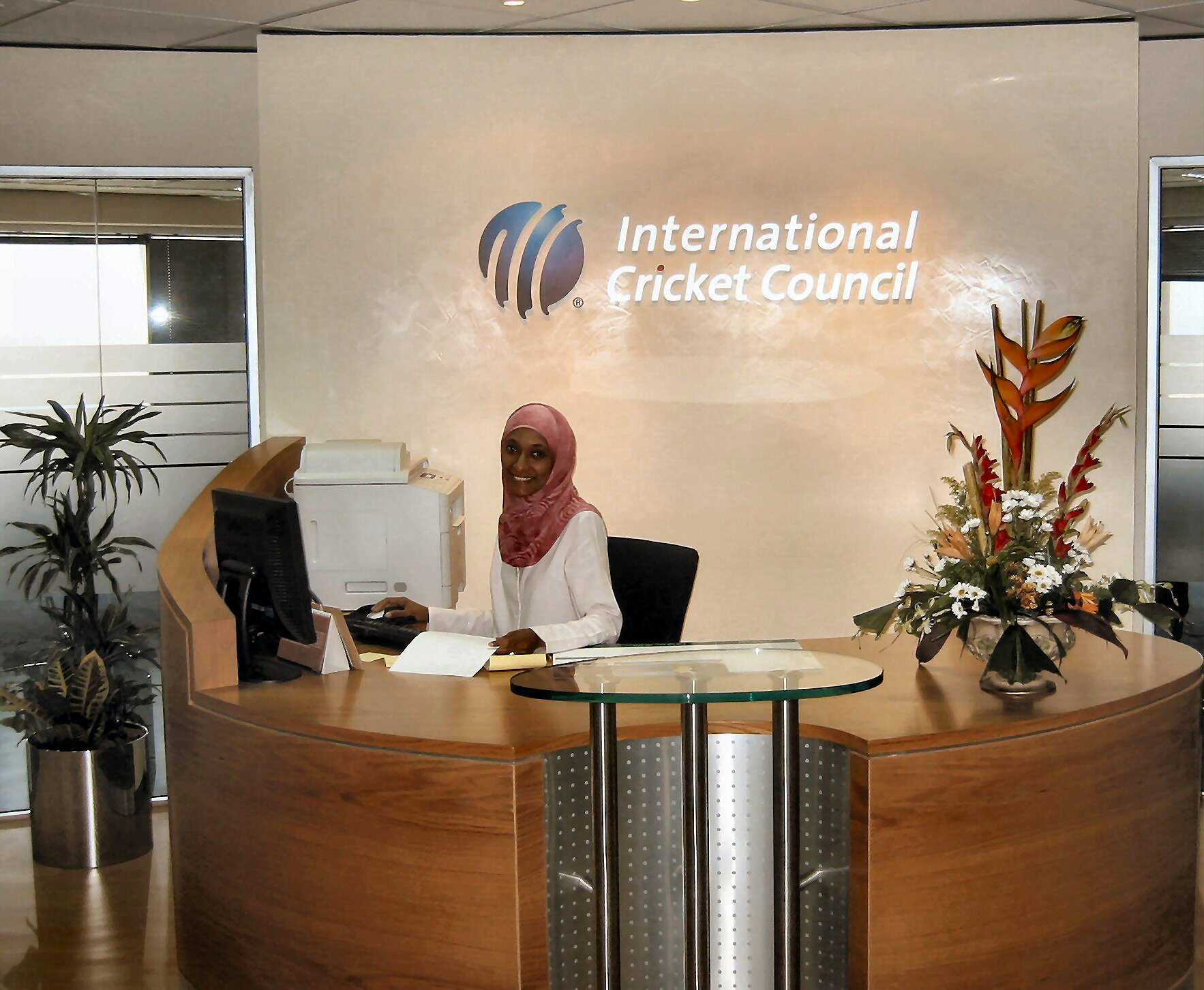 International Cricket Council Photo by Paddy Briggs